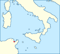 Map of central Mediterranean, showing location of Carthage (36 51 N, 10 20 E) Carthage is located near modern Tunis. Sardinia, Corsica, Italy, and Sicily are also shown here.